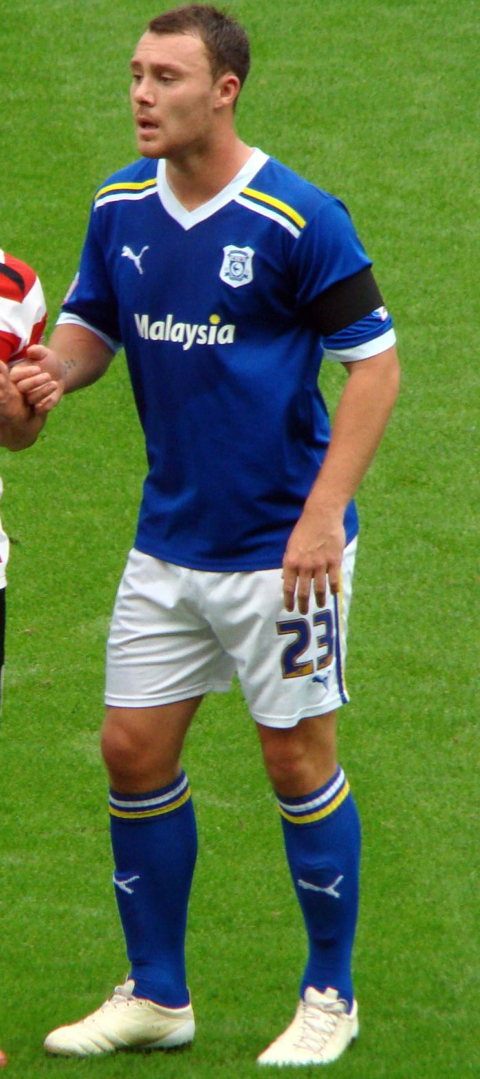 10/09/11 Cardiff V Doncaster, Championship, Cardiff City Stadium, Cardiff, Wales